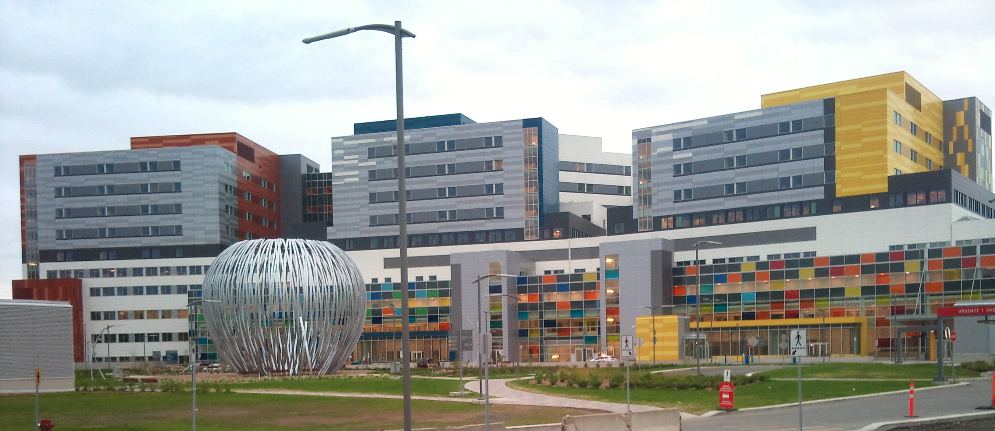 The McGill University Health Centre (MUHC) Superhospital at the Glen Site in Montreal, Quebec, Canada. For use until a better image comes about.